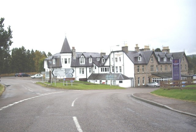 Carrbridge Hotel